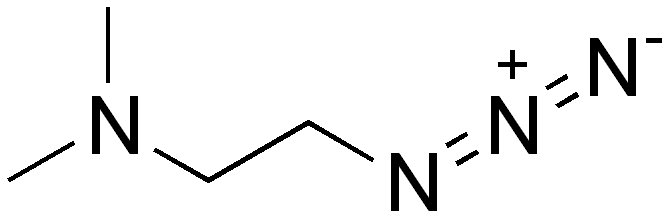 chemical structure of DMAZ (dimethylaminoethylazide)